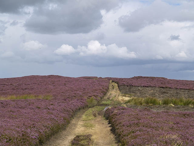 Three Howes 3 ancient mounds on the horizon. Looking north.